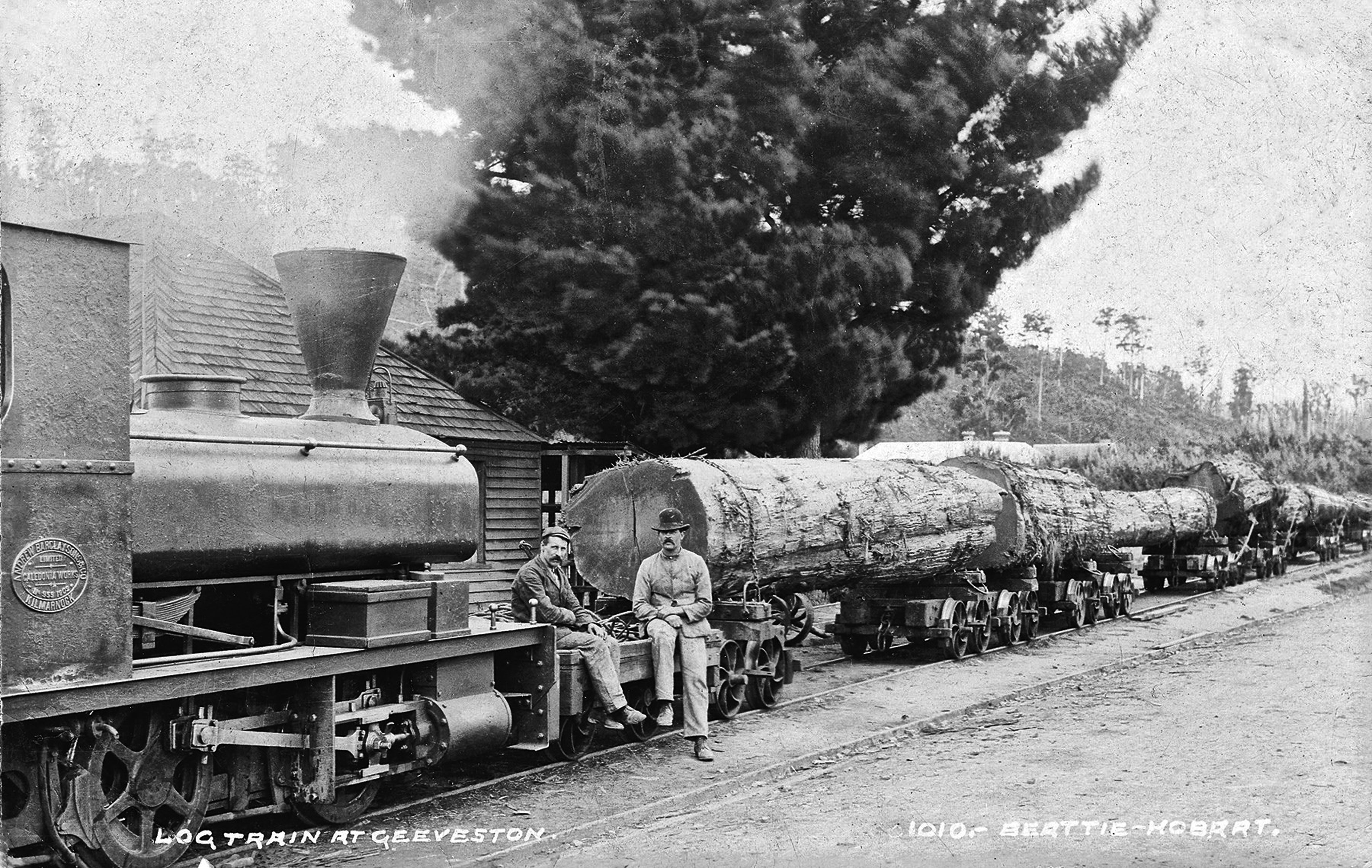 Andrew Barclay built 0-4-0ST "Huon" on a loaded train of logs for the mill at Geeveston, circa 1905. Beattie photo